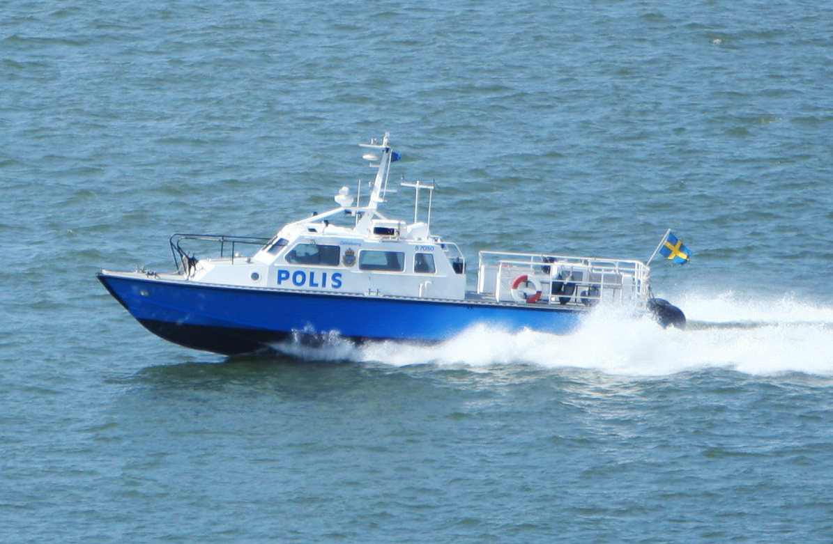 Swedish police boat, Skerfe, 87050, Göteborg.